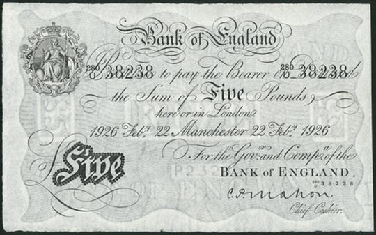 Bank of England, Cyril Patrick Mahon (1925-1929), £5, Manchester, 22 February 1926, serial number 280/U 38238, black and white, ornate crowned vignette of Britannia top left, value in black tablet low left, printed signature of C.P.Mahon low right